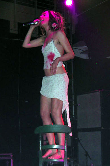 KatieJane Garside on her chair!